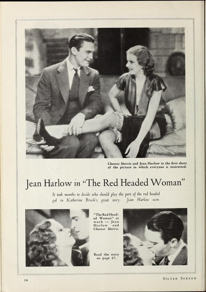 Magazine spread about Red-Headed Woman (1932 film) with pictures of Chester Morris and Jean Harlow in character.